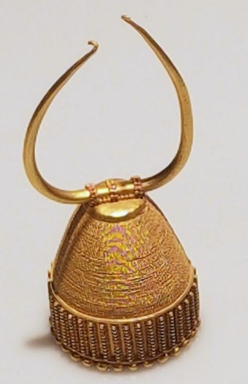 A gold ear or nose ring found at Suruq Al Hadid